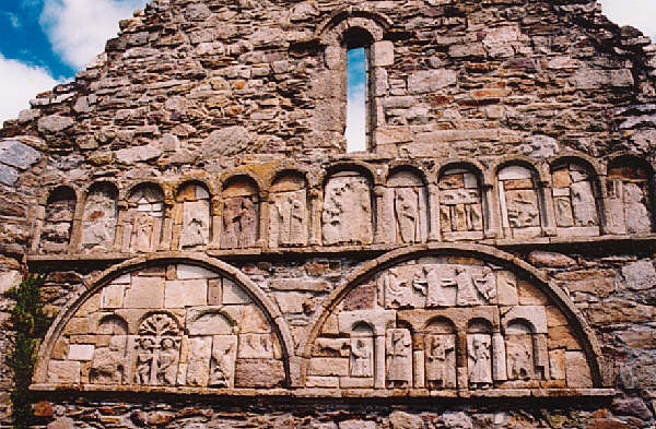 Stone carvings in St Declan's church, Ardmore, County Waterford, Ireland Photo by Michael Rogers, 2002, who retains copyright and releases the image under the GFDL.